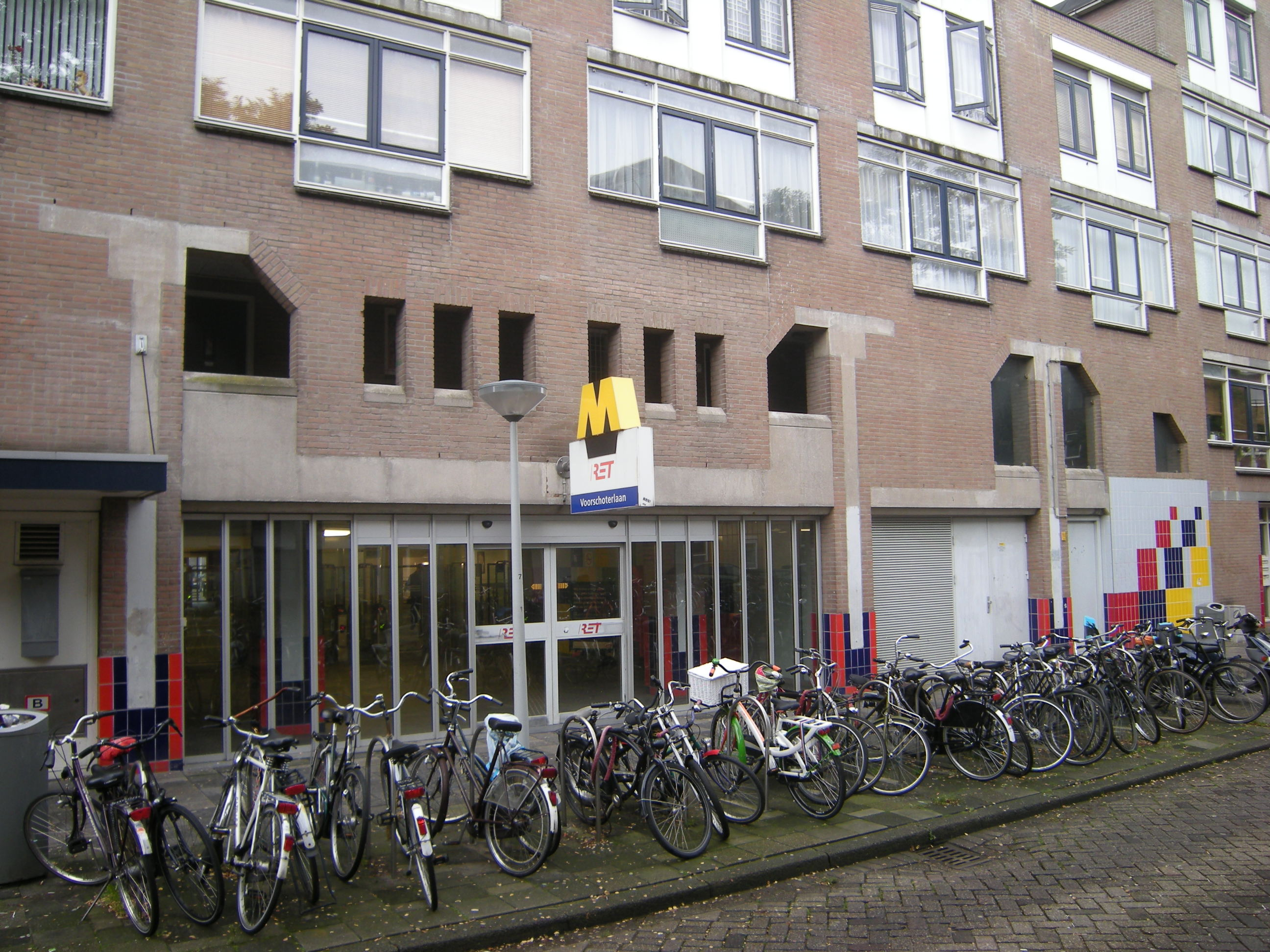 Entrance metro station Voorschoterlaan, Rotterdam, the Netherlands.